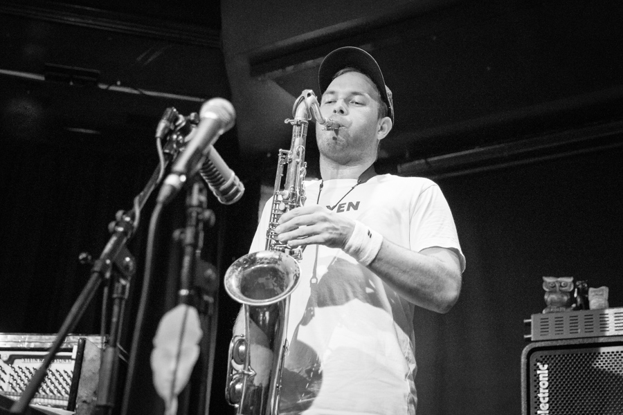 Harald Lassen at the stage at Herr Nilsen. The concert was part of Oslo Jazzfestival and took place on 16. August 2017. Lineup: Harald Lassen (saxophone), Bram De Looze (piano), Stian Andersen (double bass) and Tore Flatjord (drums).